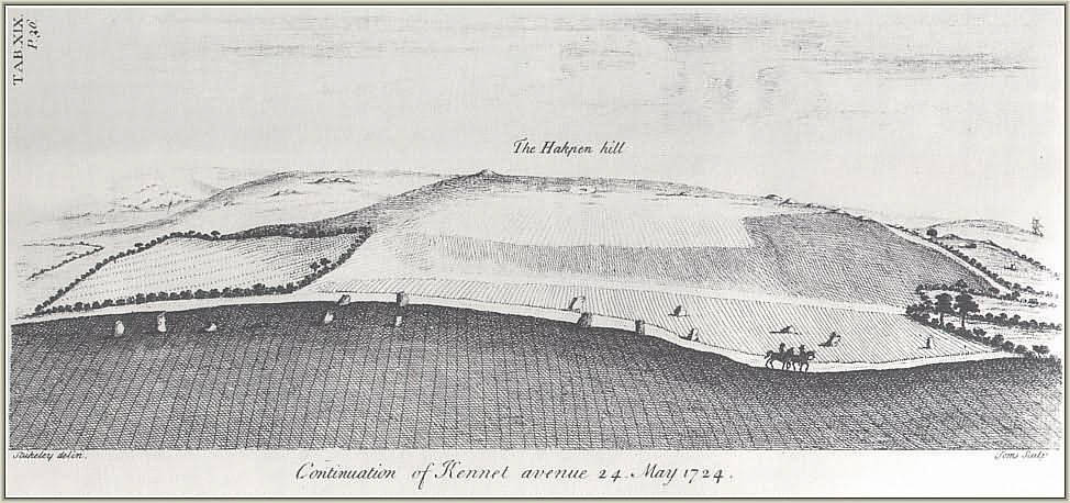 Kennet Avenue by W. Stukeley